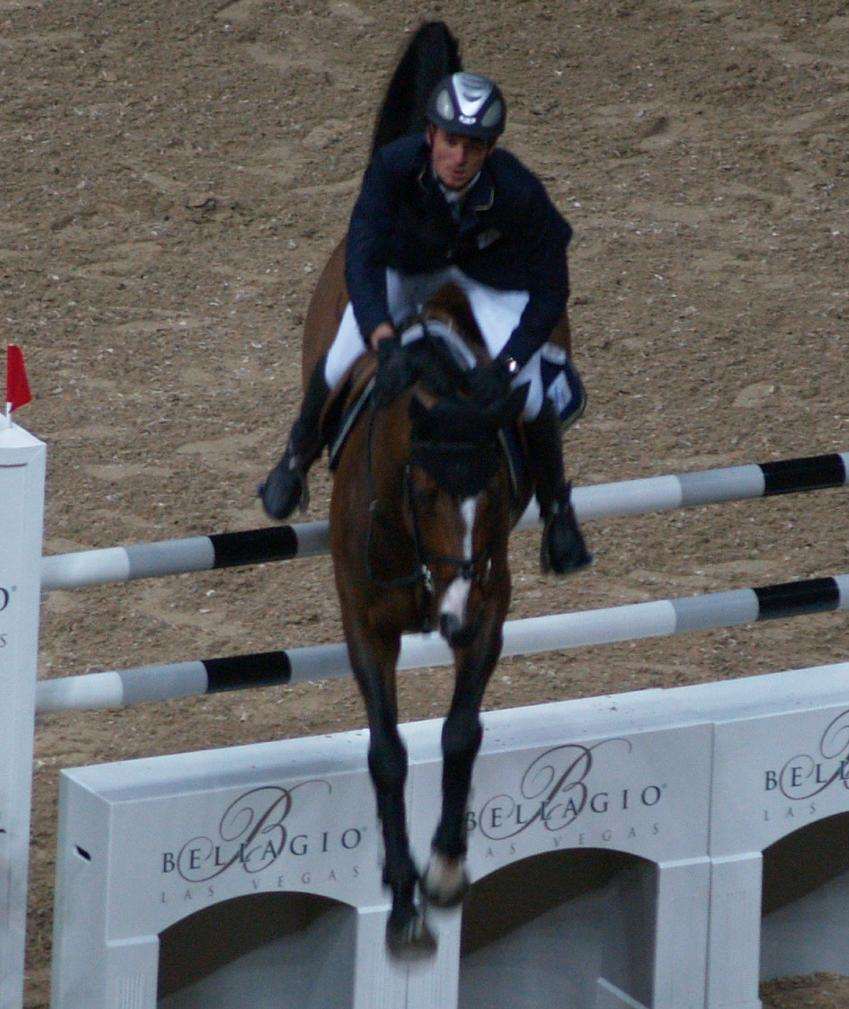 Steve Guerdat (SUI) with Tresor, FEI-World Cup Final 2007, Las Vegas, NV, USA